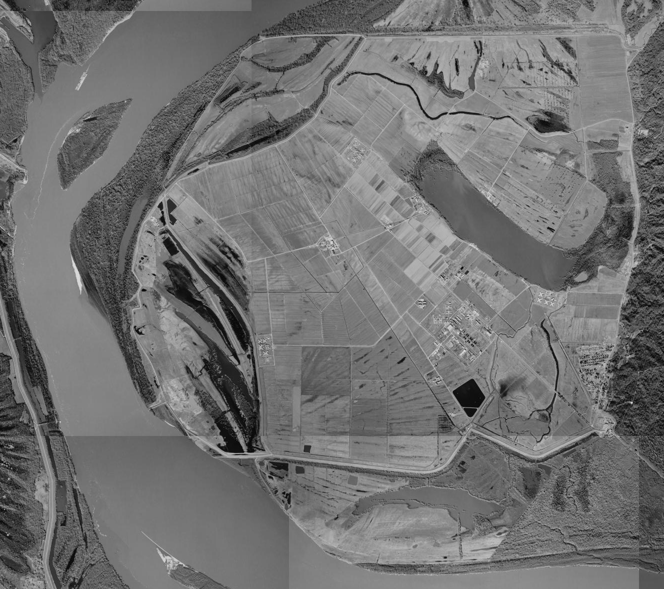 USGS orthophoto of Louisiana State Penitentiary in Louisiana, United States